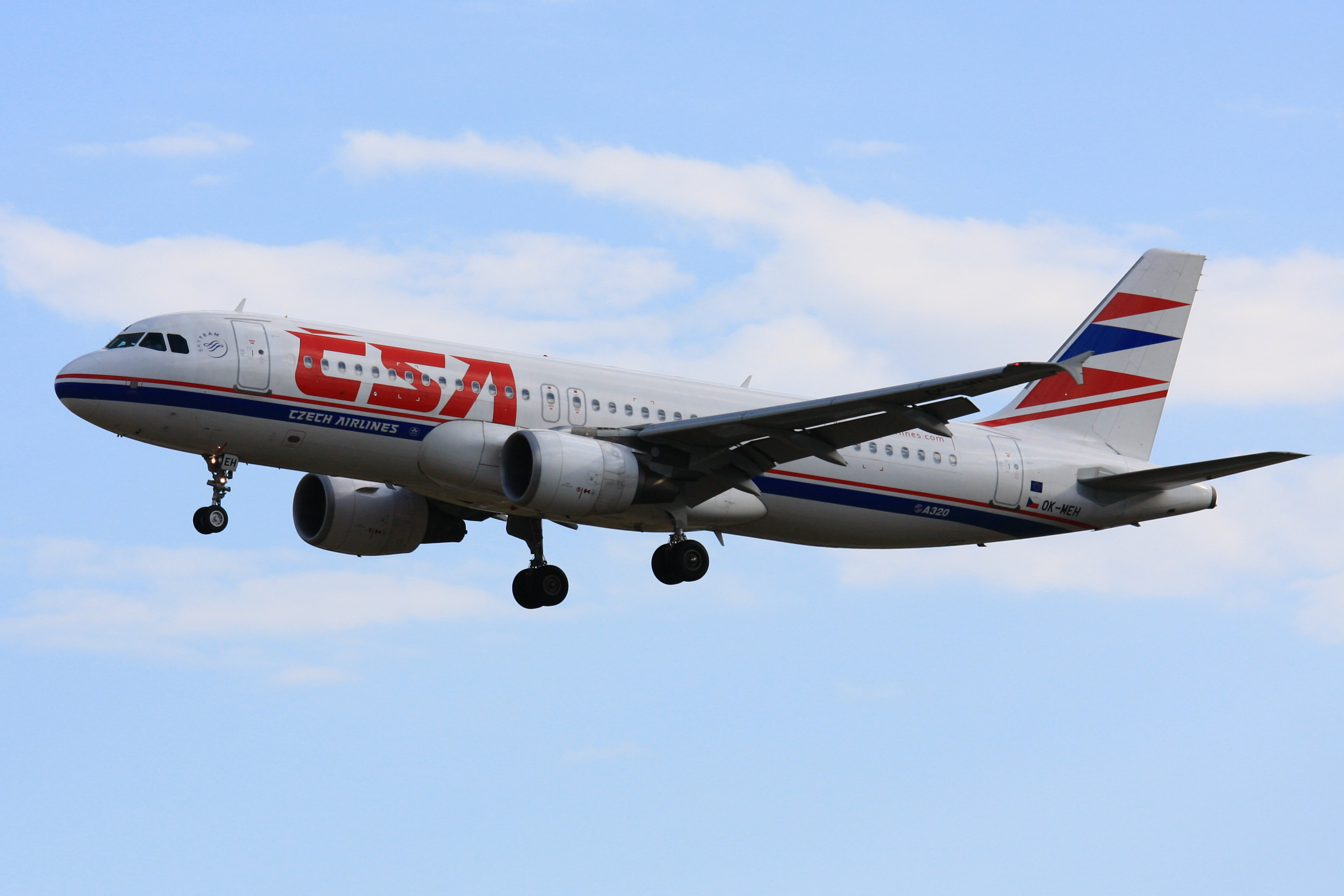 An Airbus A321 of Czech Airlines landing at Frankfurt Airport